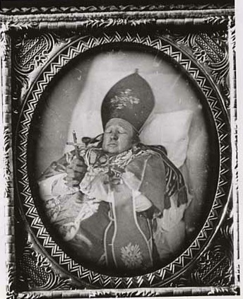 Bishop Joseph Cretin, first Roman Catholic Bishop of the diocese of St. Paul, in casket.